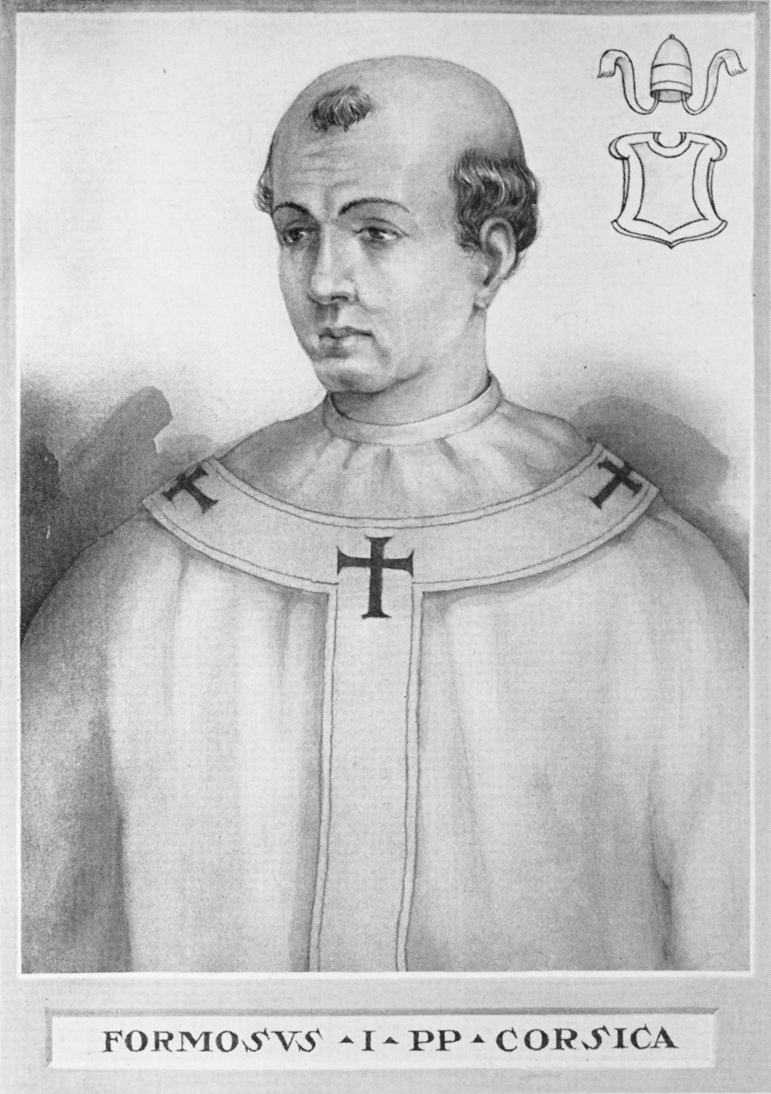 This illustration is from The Lives and Times of the Popes by Chevalier Artaud de Montor, New York: The Catholic Publication Society of America, 1911. It was originally published in 1842.